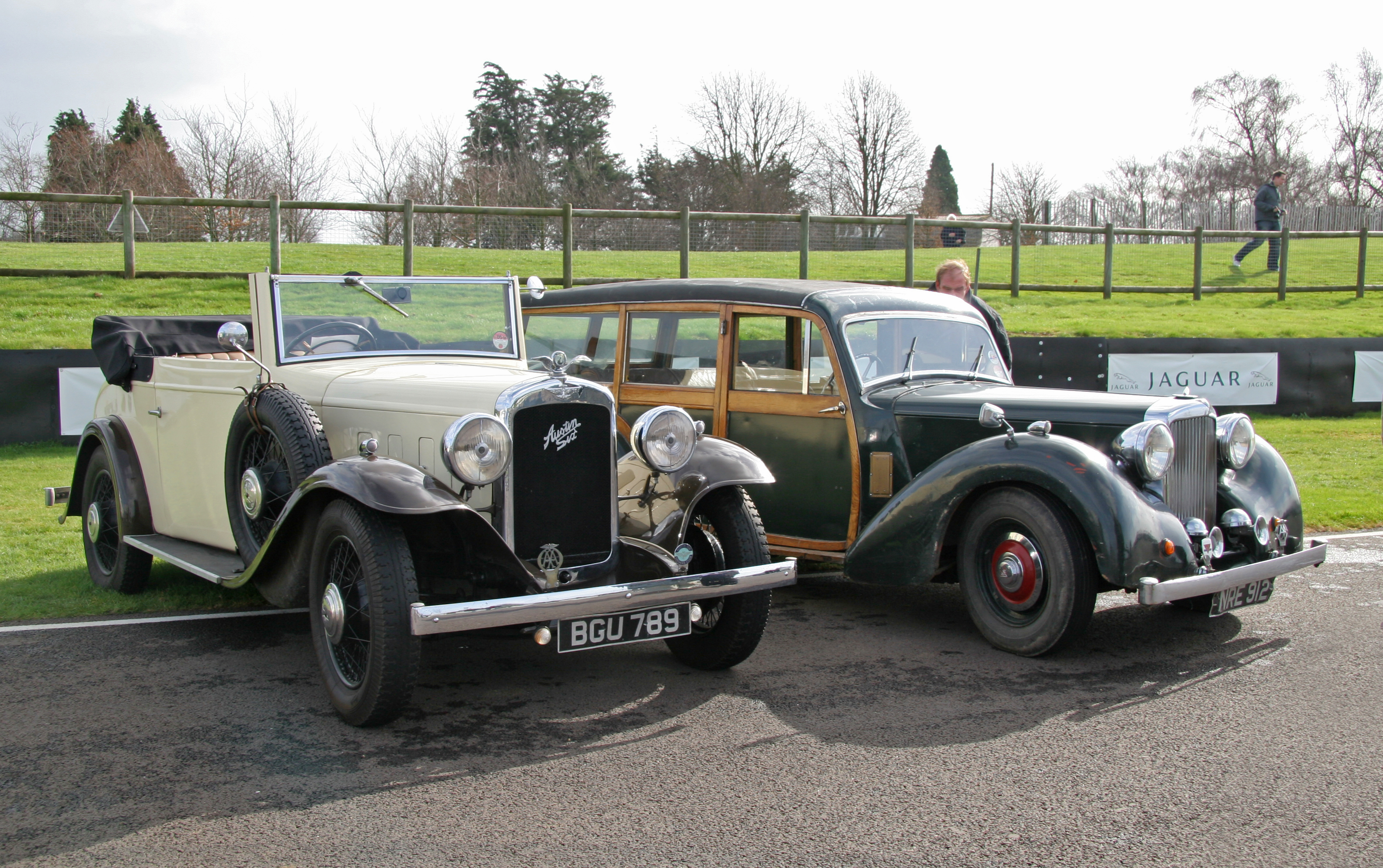 Austin Sixteen drophead coupé body by Gordon & Co of Sparkbrook andAlvis TA 14 Wagonette Woody DVLA—Austin first registered 19 September 1934, 2249 cc (=Austin Sixteen)BRE 912 Alvis first registered 10 May 1947, 1800 cc Jensen body rebodied by Thomas William Marshall in 1963. Left Alvis factory 27 March 1947